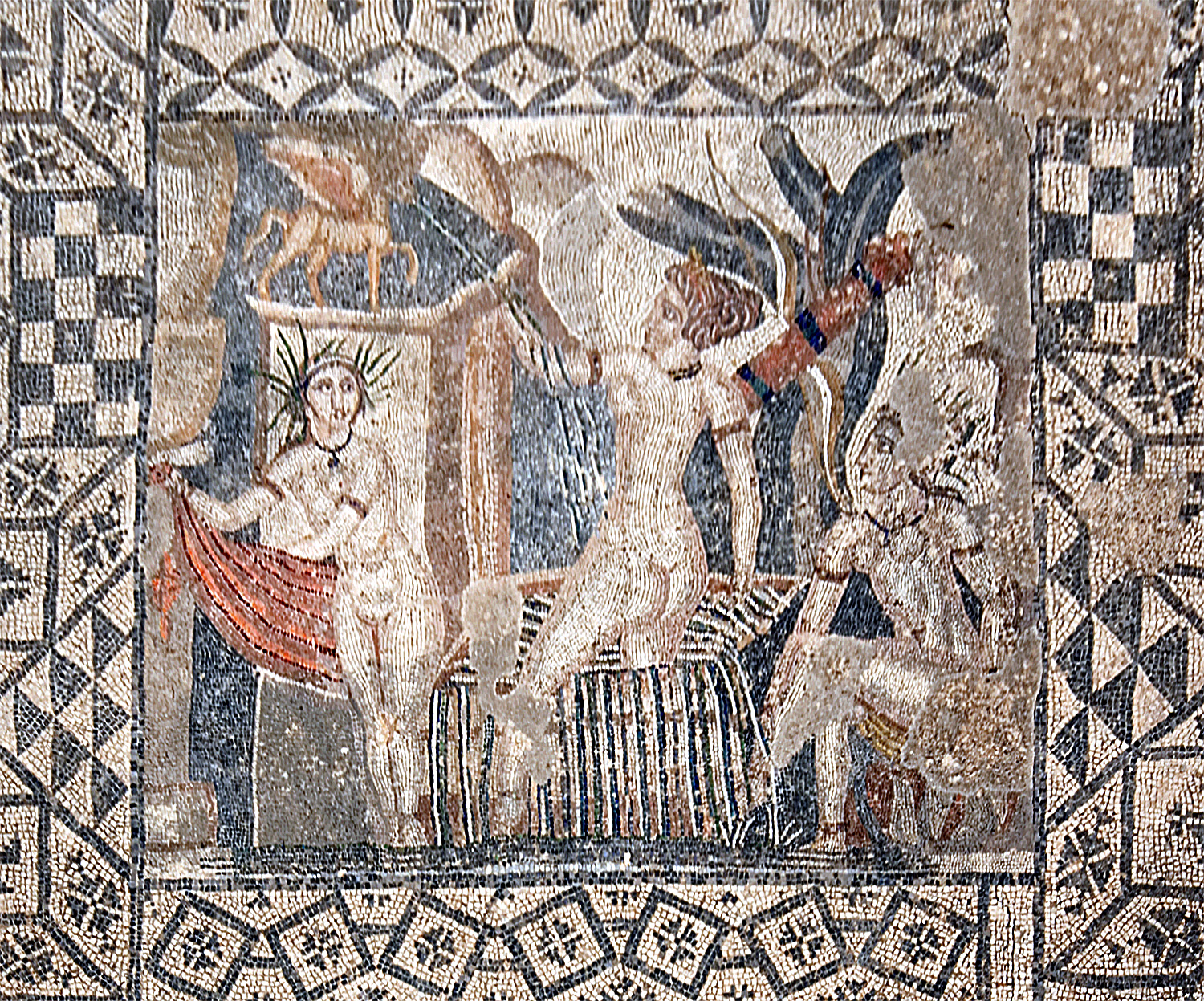 Mosaic of Diana and her nymph being surprised by Actaeon. House of Venus, Volubilis